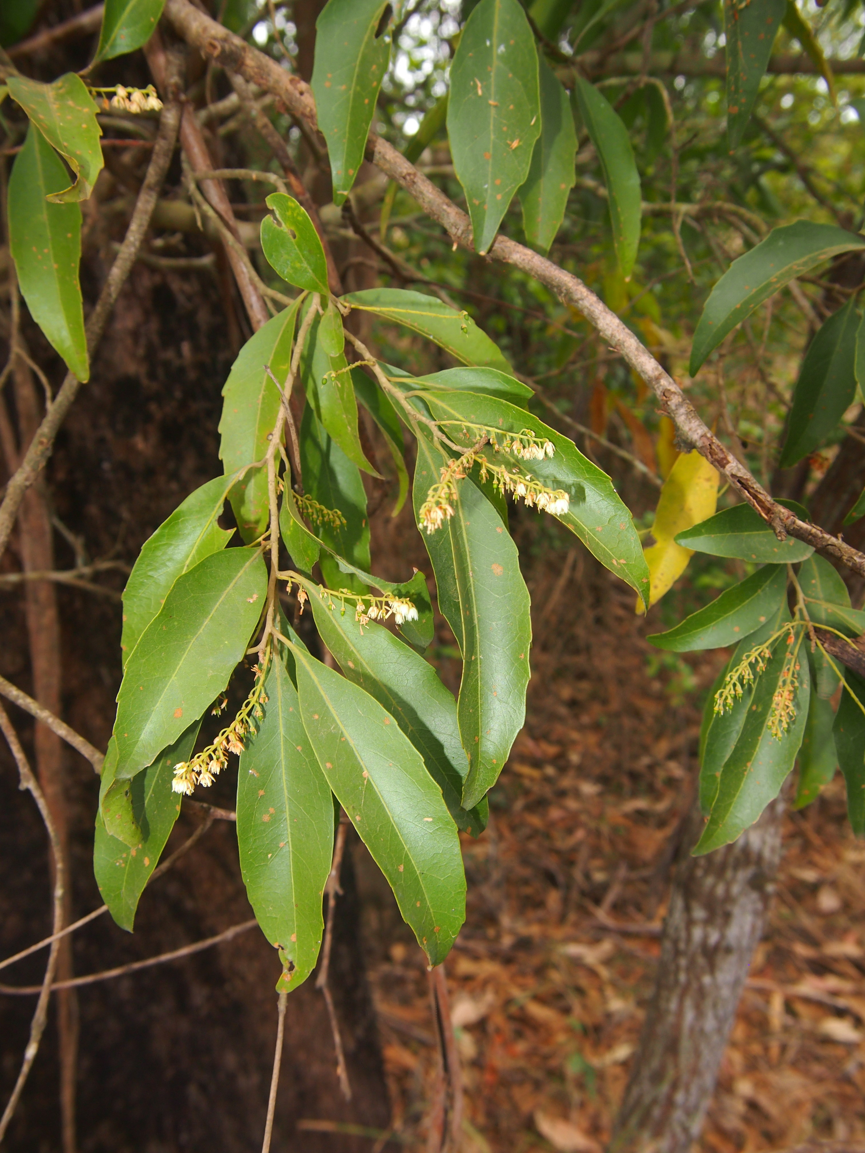 Elaeocarpus grandis flowers and foliage